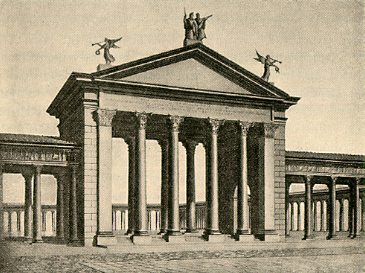 Reconstruction of the Porticus Octaviae.